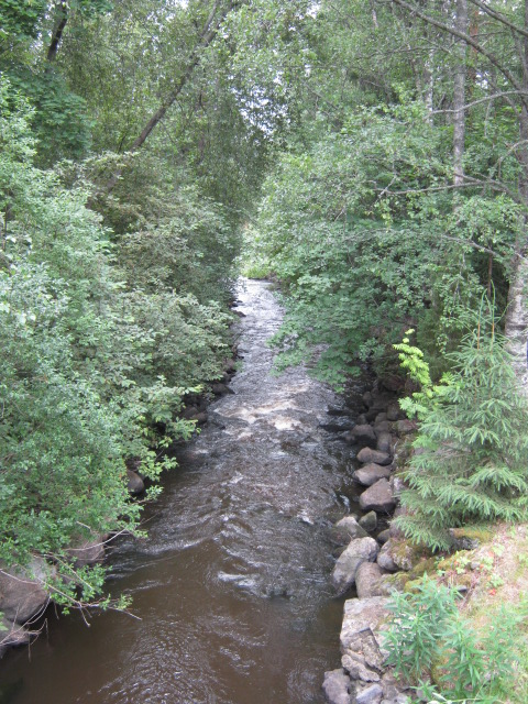 Kauvatsanjoki flows in two narrow creeks in Sääkskoski rapid. Kokemäki, Finland.